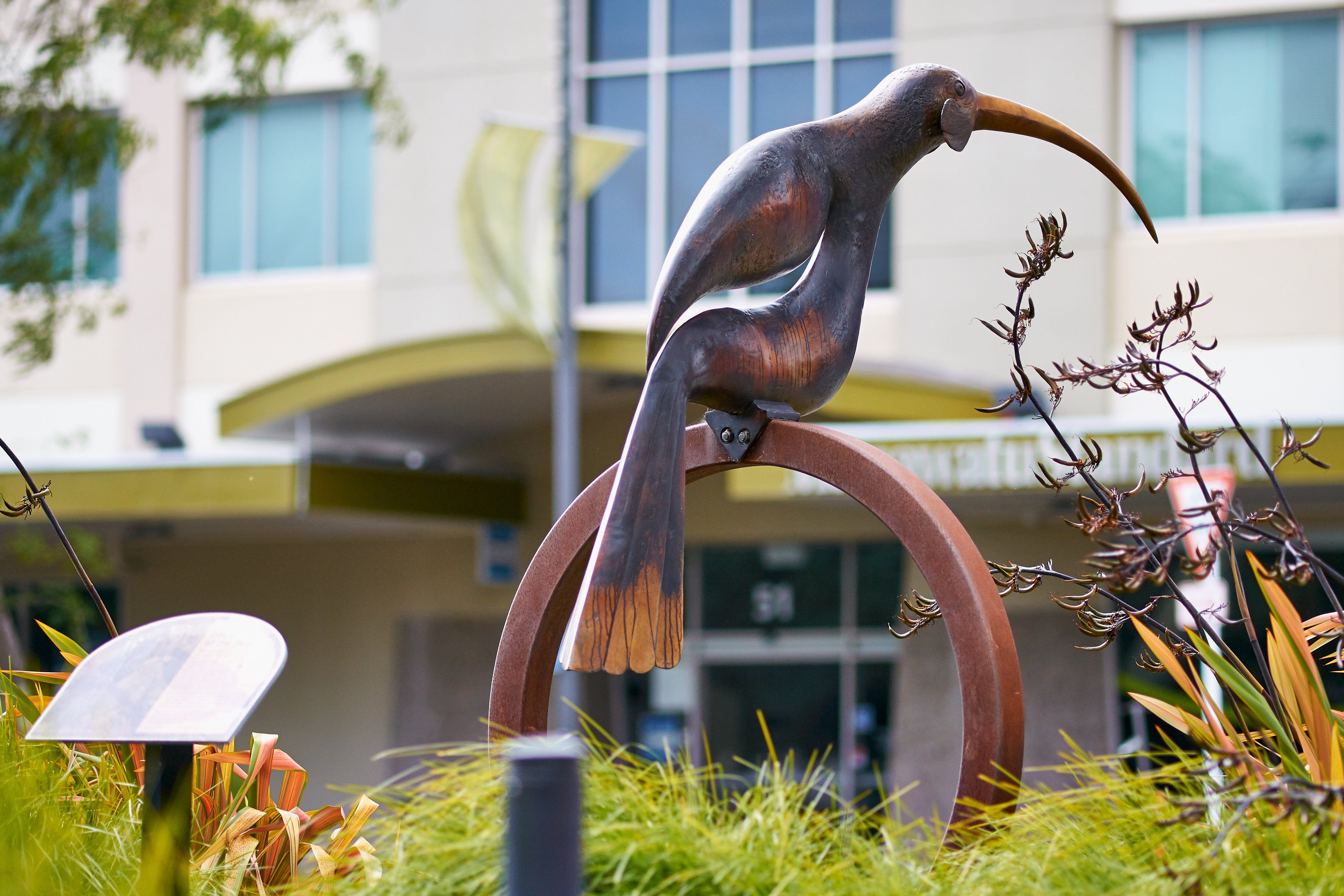 Paul Dibble, 2010. In the south west corner of The Square, facing the roundabout opposite the Square Edge Building, Paul Dibble's Ghost of the Huia is a tribute to the memory of the extinct huia. A unique native bird of New Zealand, the last confirmed sighting of a live huia was in the Tararua ranges in 1907. The sculpture was installed in this central location for public enjoyment by Dibble Art Studio and Zimmerman Art Gallery. The huia is made of bronze, and the base of the sculpture is made from Corten Steel.